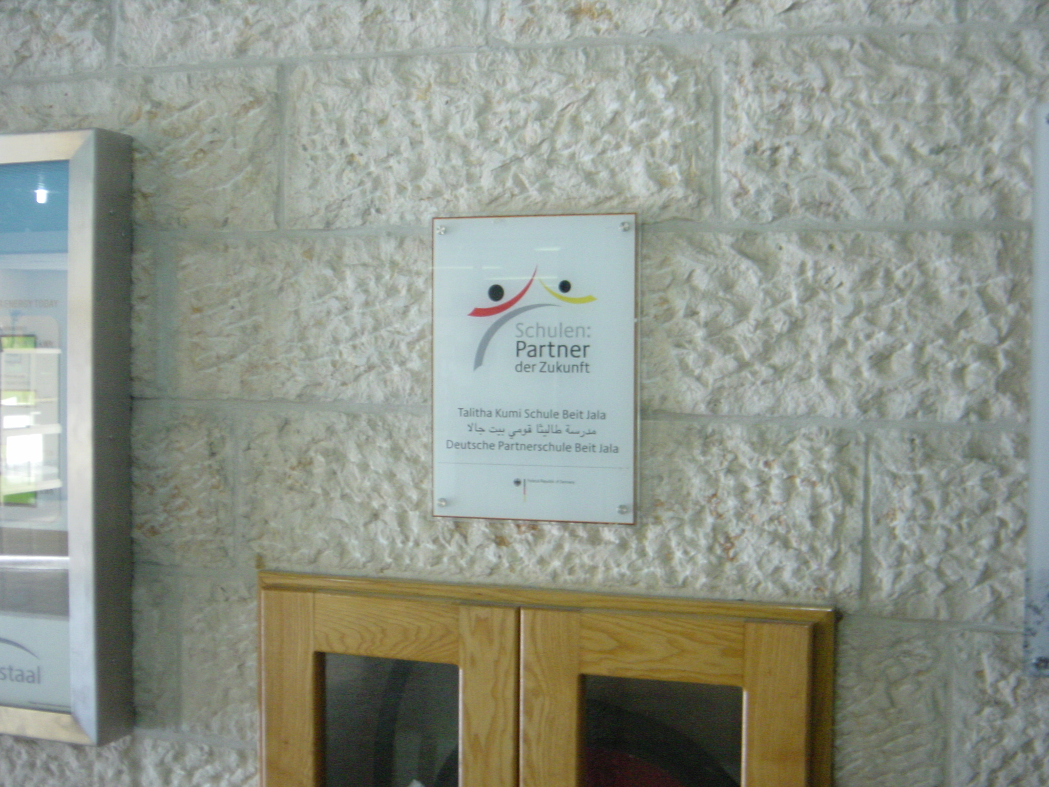 Talitha Kumi School Beit-Jala